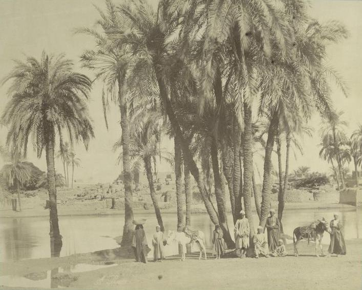 Digital ID: 81500. Beato, Antonio -- Photographer. [186-188-] Source: [Collection of photographs of Egypt and Nubia.] / A. Beato and others. (more info) Repository: The New York Public Library. Photography Collection, Miriam and Ira D. Wallach Division of Art, Prints and Photographs. See more information about this image and others at NYPL Digital Gallery. Persistent URL: Rights Info: No known copyright restrictions; may be subject to third party rights (for more information, click here)